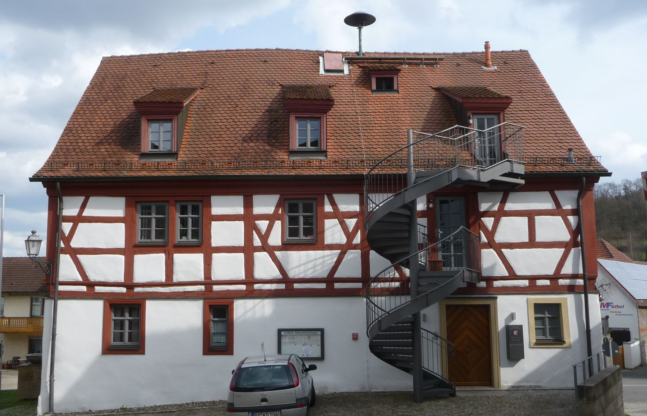 Viereth